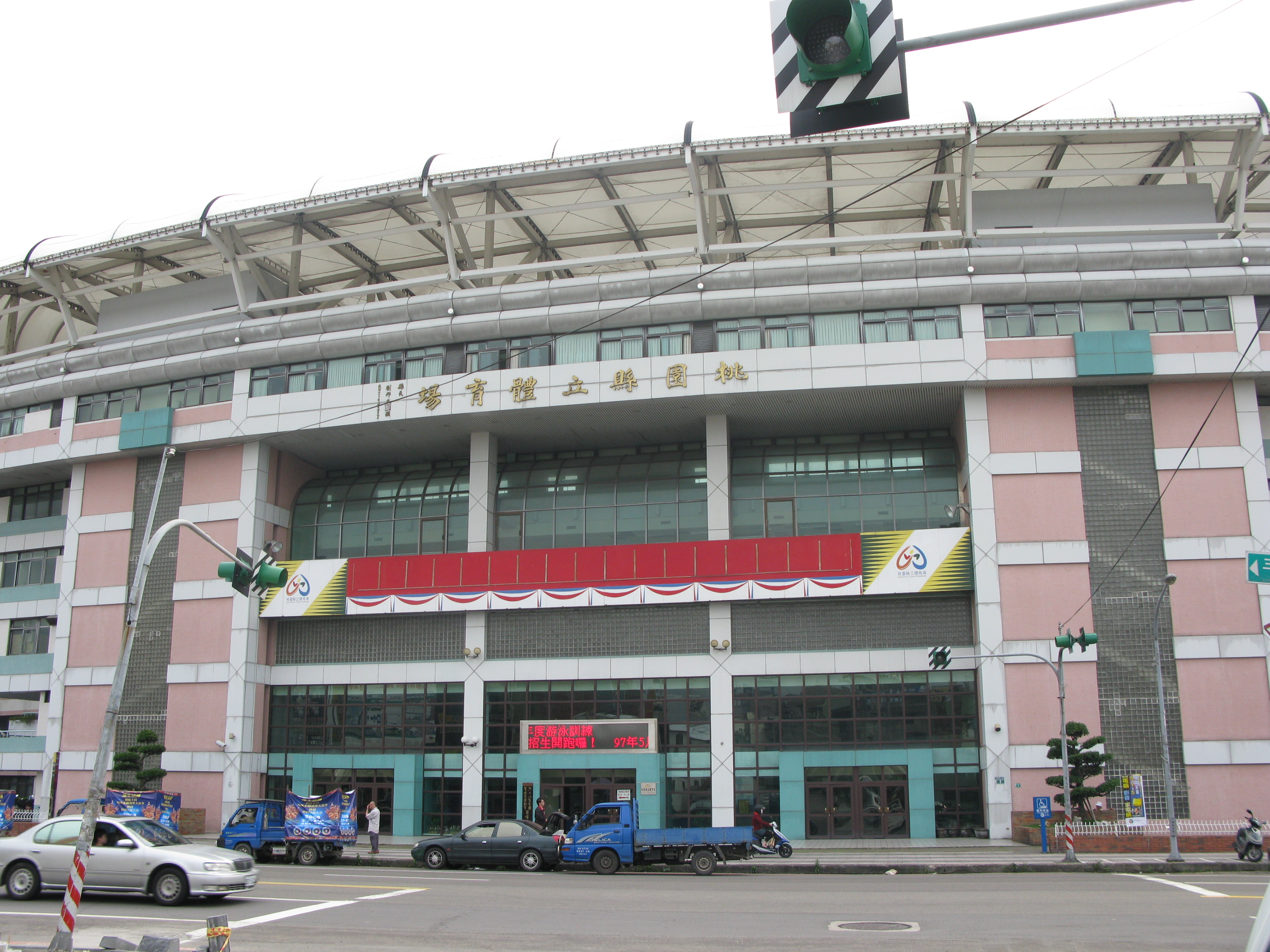 Taoyuan County Stadium